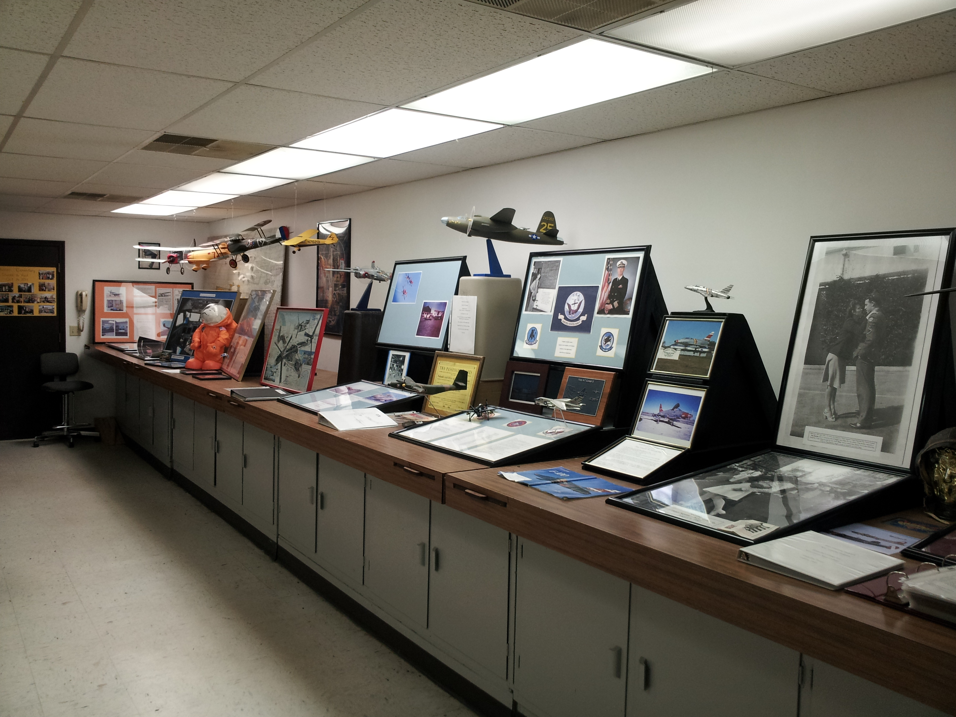 One wall of aviation artifacts at the Texas Air & Space Museum.